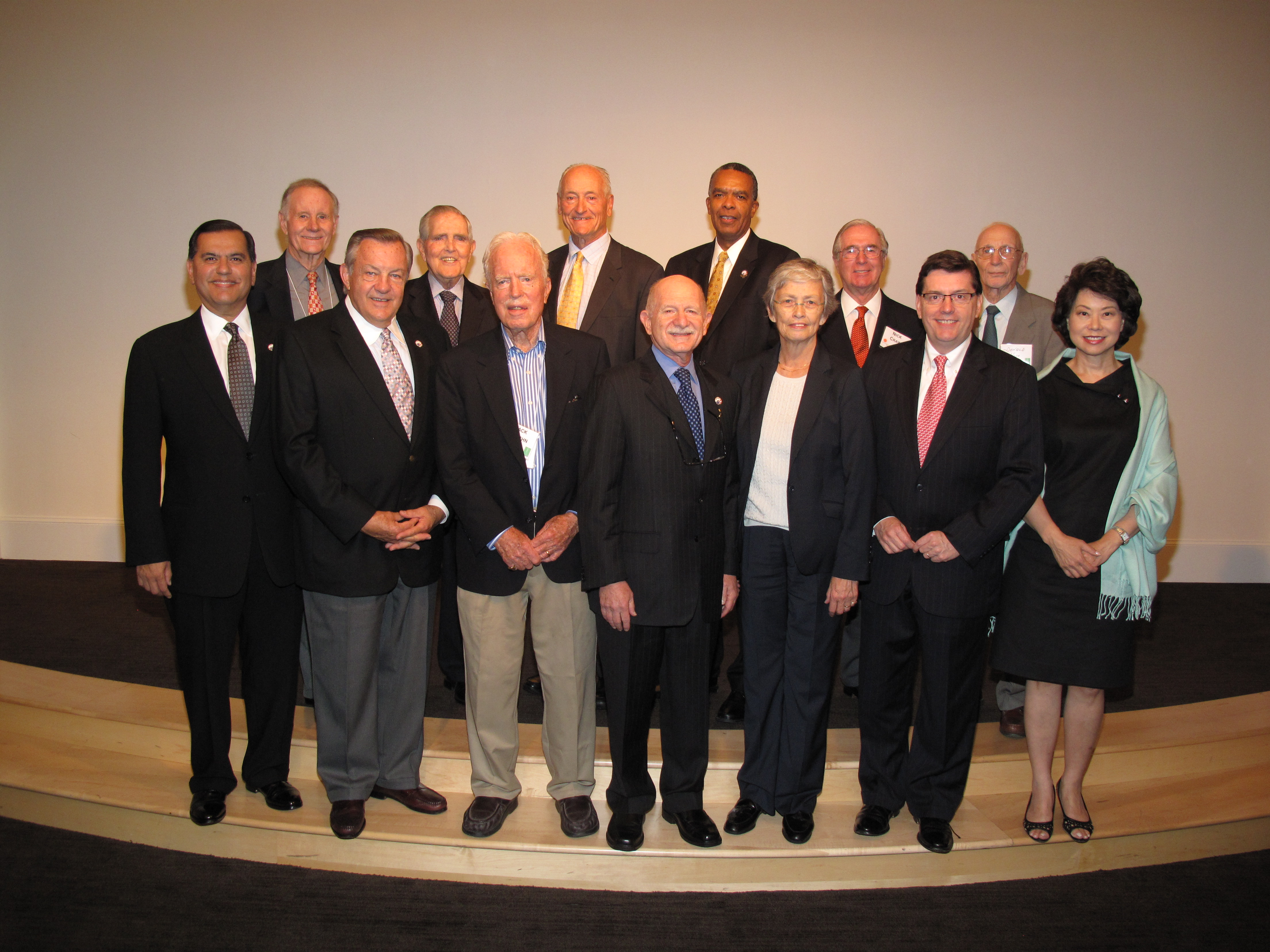 All of the living Peace Corps Directors convene at the Peace Corps Staff Reunion. Pictured left to right: Gaddi Vasquez, Joe Blatchford, Ron Tschetter, Kevin O’Donnell, Jack Vaughn, Richard Celeste, Mark Schneider, Aaron Williams, Carol Bellamy, Nick Craw, Mark Gearan, Don Hess, Elaine Chao.